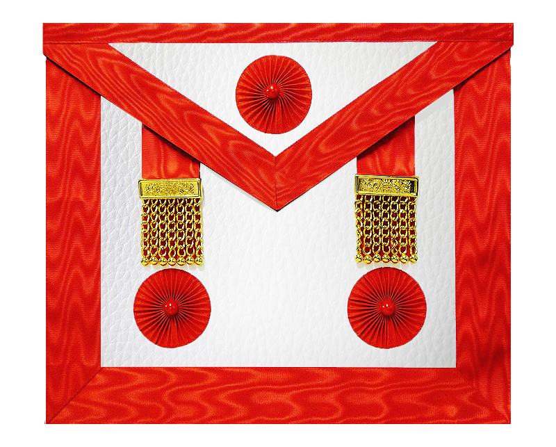 Masonic master apron in the Old and Accepted Scottish Rite.